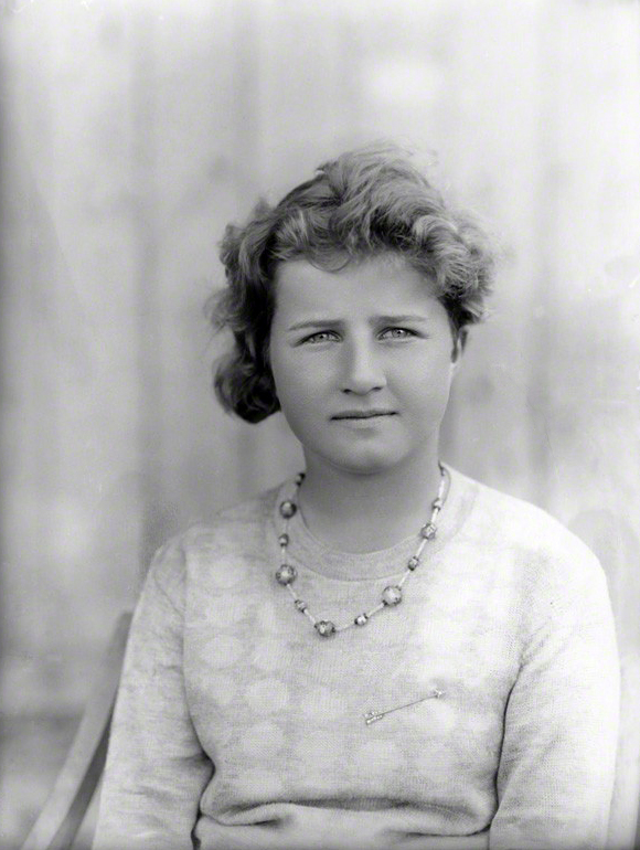 American tennis player Dorothy Bundy Cheney by Bassano, whole-plate glass negative, 11 June 1929